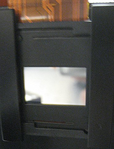 An LCD array based spatial light modulator